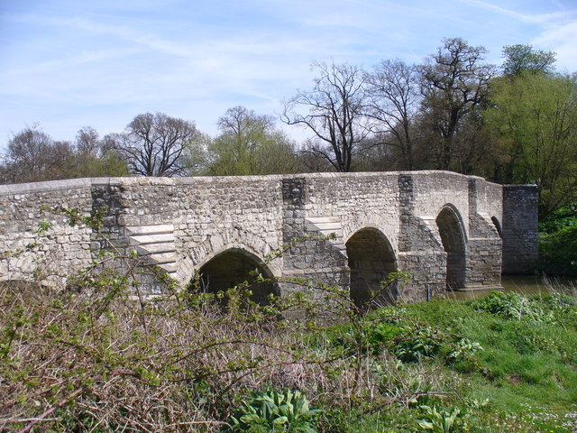 Teston Bridge Medieval stone bridge over the River Medway. Note the enlarged arch for the benefit of barge traffic.